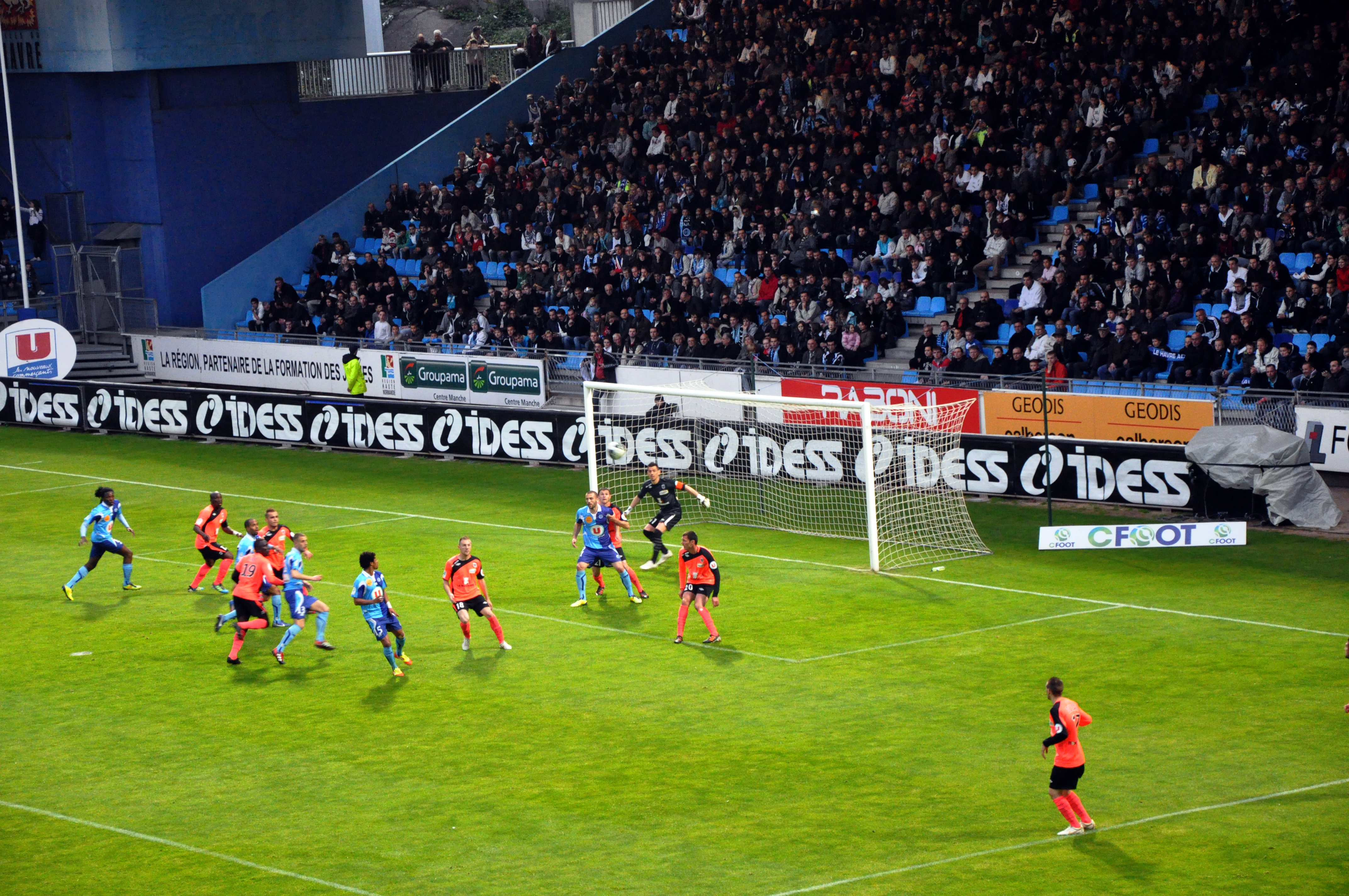 2012 05 18 Last match of association football club of Le Havre (France, Normandy) in Deschaseaux stadium